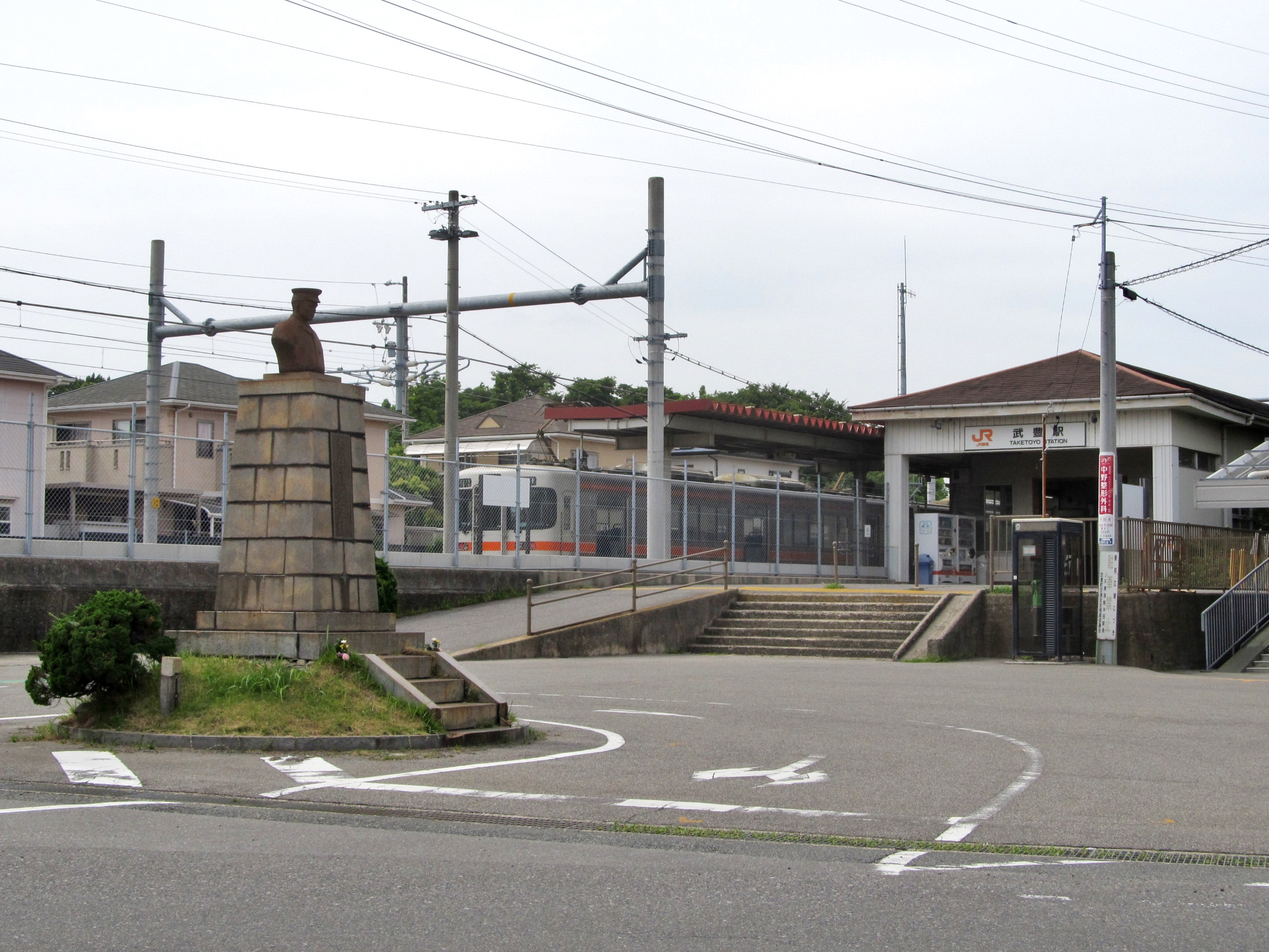 Central Japan Railway Taketoyo Line Taketoyo Station Building